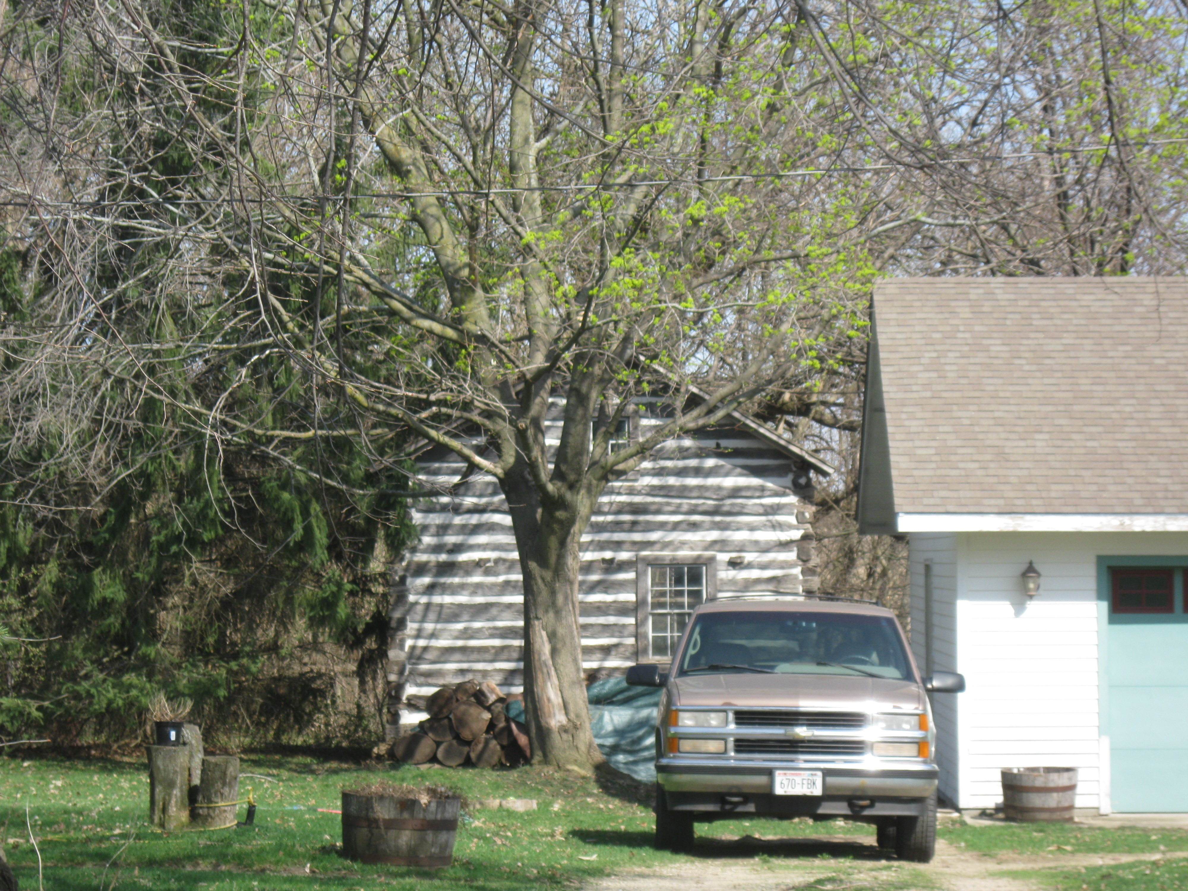 The Gaute Ingebretson Loft House, located at 1212 Pleasant Hill Road east of Stoughton, Wisconsin. The building is in the center of the picture, behind the truck and the tree.